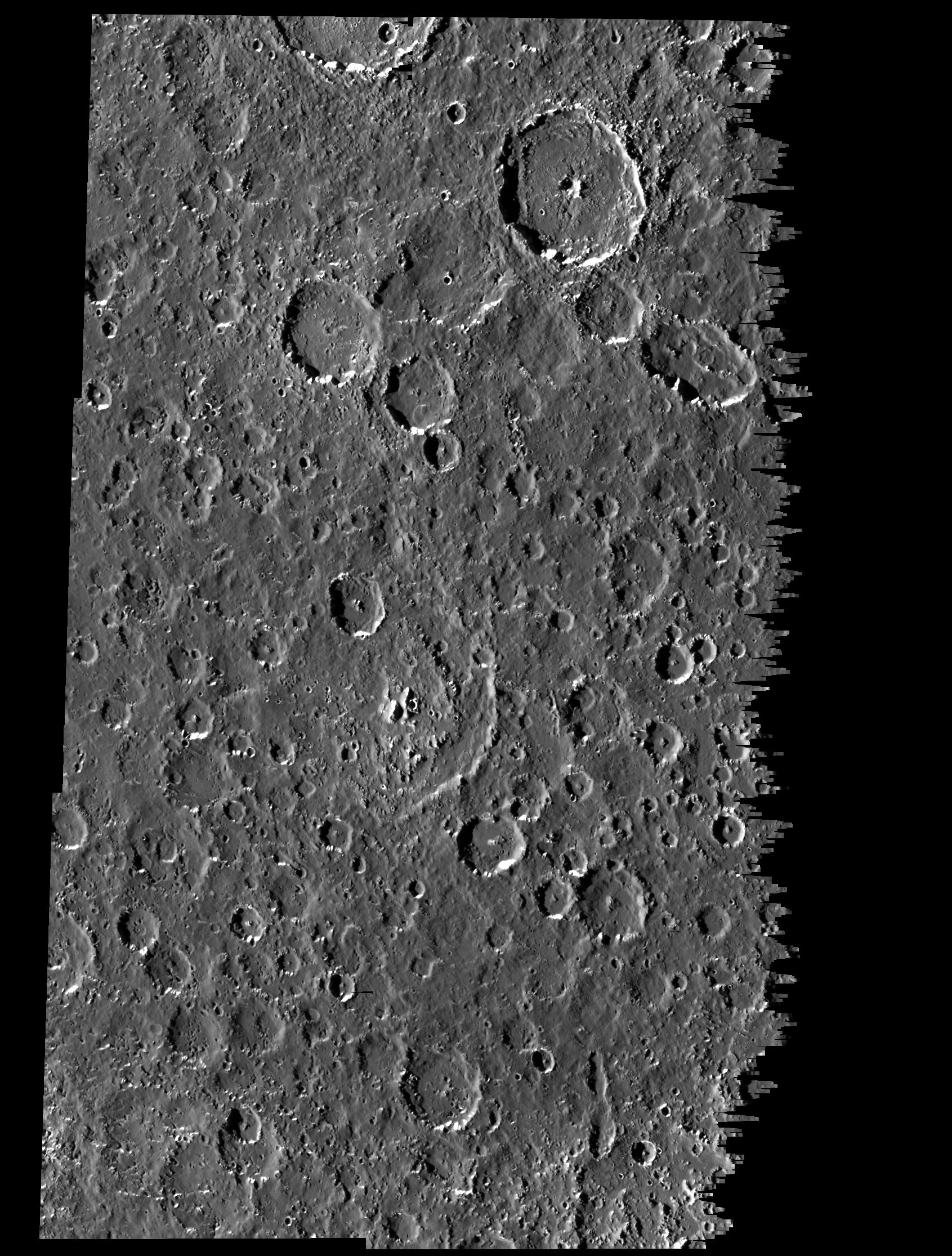 This mosaic covers part of the equatorial region of Jupiter's moon, Callisto. The mosaic combines six separate image frames obtained by the solid state imaging (CCD) system on NASA's Galileo spacecraft during its ninth orbit around Jupiter. North is to the top of the picture. The mosaic shows several new features and characteristics of the surface revealed by Galileo. These include deposits that may represent landslides in the southern and southwestern floors of many craters. Two such deposits are seen in a 12 kilometer (7.3 mile) crater in the west-central part of the image, and in a 23 kilometer (14 mile) crater just north of the center of the image. Also notable are several sinuous valleys emanating from the southern rims of 10 to 15 kilometer (6.2 to 9.3 mile) irregular craters in the west-central part of the image. The pervasive local smoothing of Callisto's surface is well represented in the plains between the craters in the southeastern part of the image. Possible oblique impacts are suggested by the elongated craters in the northeastern and southeastern parts of the image. The mosaic, centered at 7.4 degrees south latitude and 6.6 degrees west longitude, covers an area of approximately 315 by 215 kilometers (192 by 131 miles). The sun illuminates the scene from the west (left). The smallest features that can be seen are about 300 meters (993 feet) across. The images were obtained on June 25, 1997, when the spacecraft was at a range of 15,200 kilometers (8,207 miles) from Callisto.